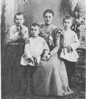 Maryja Jahoraŭna Bahdanovič with her nephews: (from left to right) Vadzim, Leŭ and Maksim Bahdanovičs Беларуская (тарашкевіца): Марыя Рыгораўна Багдановіч са сваімі пляменьнікамі: (зьлева направа) Вадзім, Леў, Максім